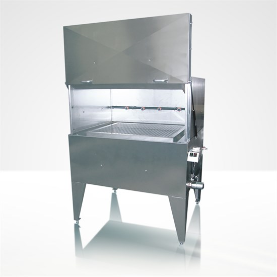 This picture show washer of Perfect Finish. The Washer is the appropriate washing system supplement to a dipper.